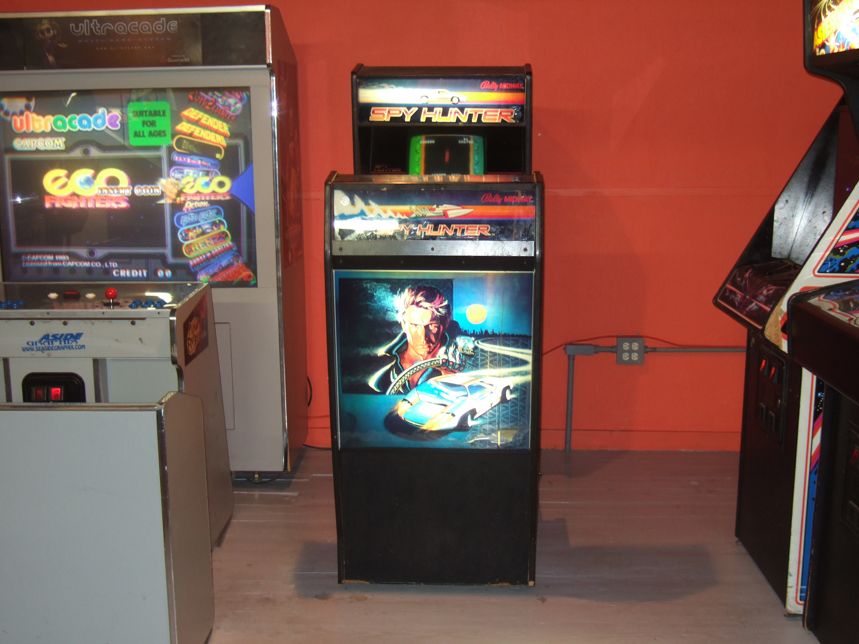 With Greg at the Flashbacks retro arcade in Seaside Heights, NJ, July 25, 2009. pictured: Bally Midway's Spy Hunter sit-down cabinet